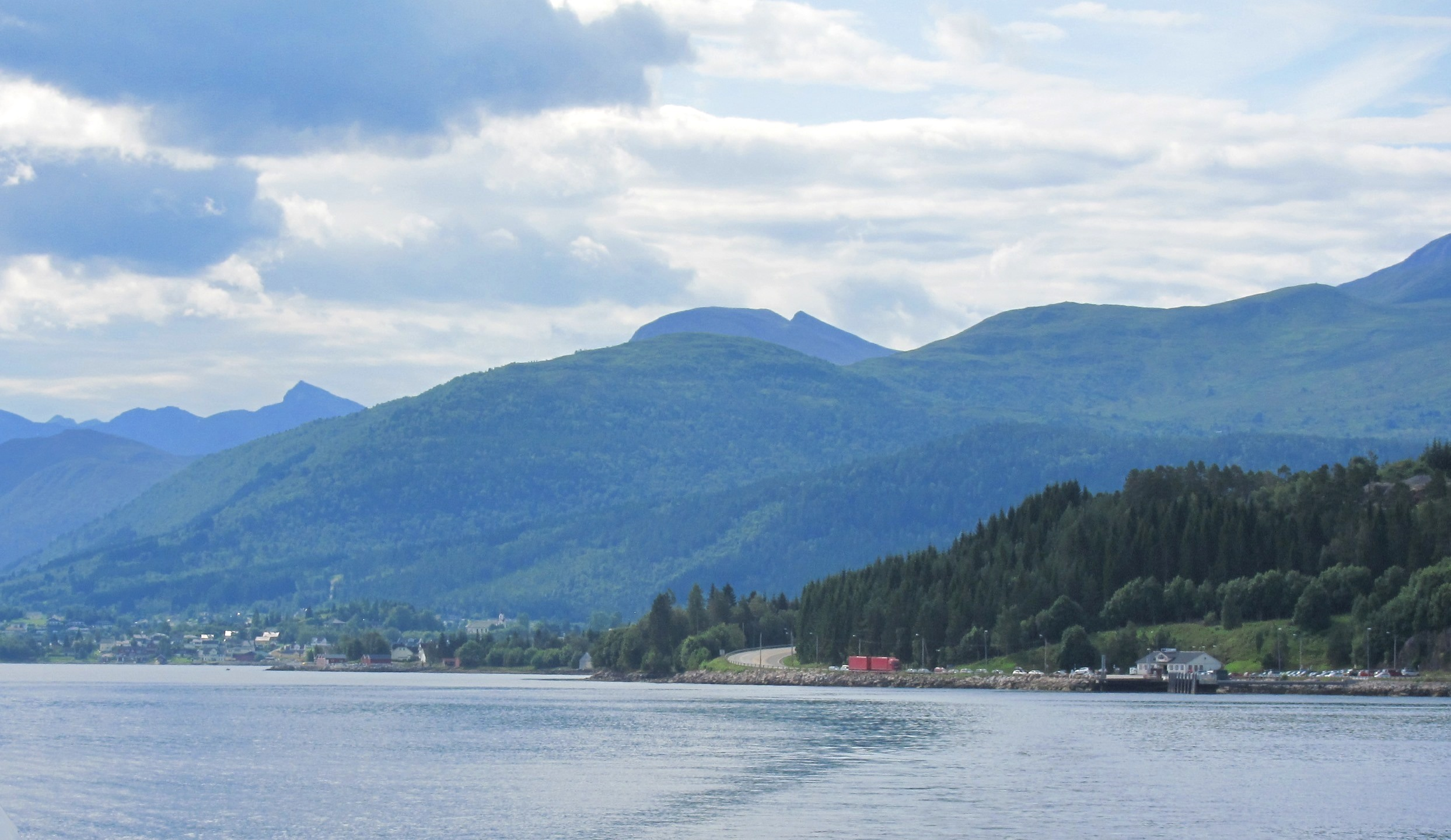 Furneset ferry dock (Vestnes), seen from ferry on Moldefjord.